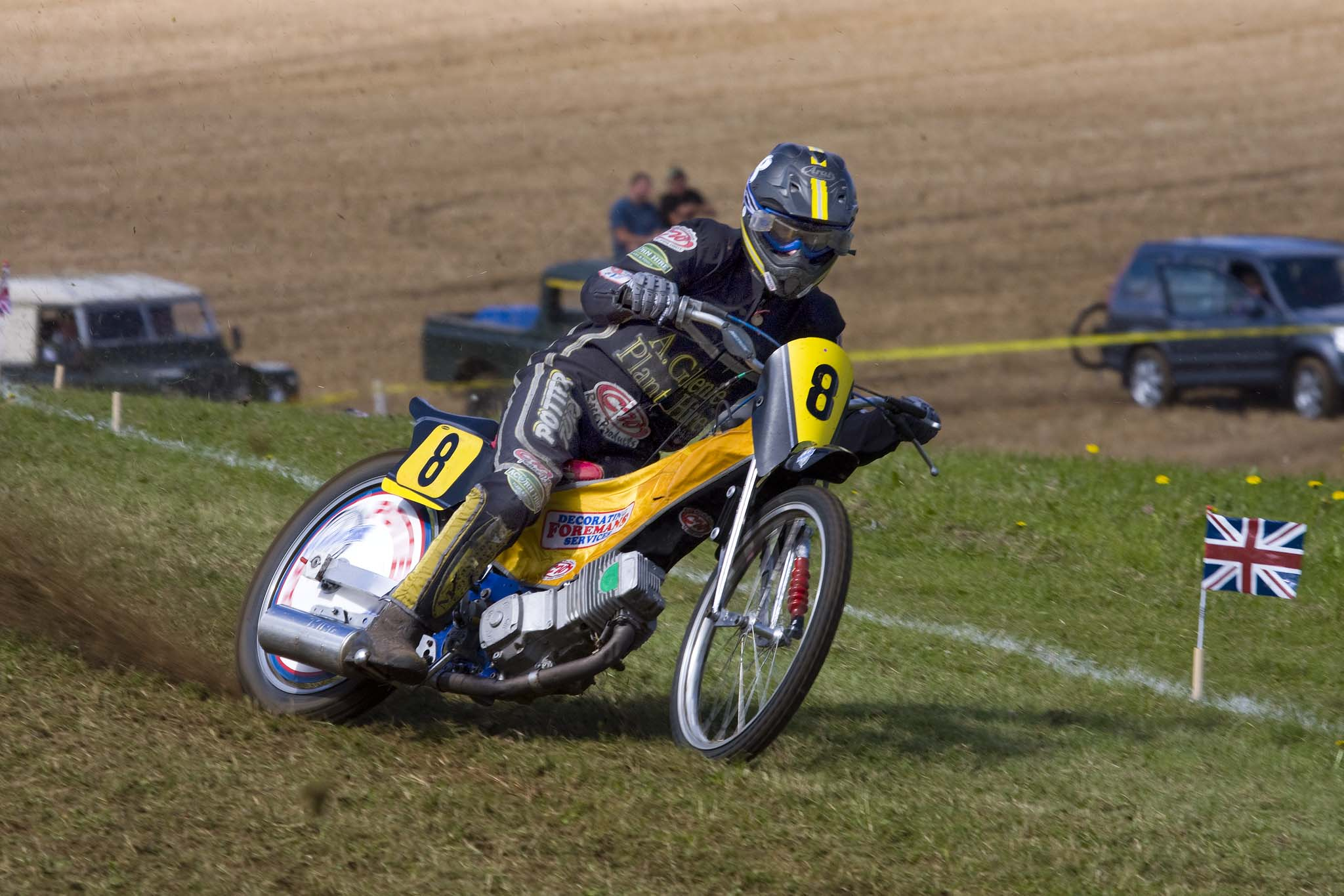 British Grass Track racer Vince Kinchin (1967-2010) during the British Masters Grass Track Championship 2008